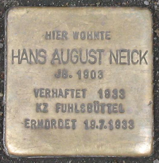 "Stumbling block" in Hamburg-St. Pauli, Germany